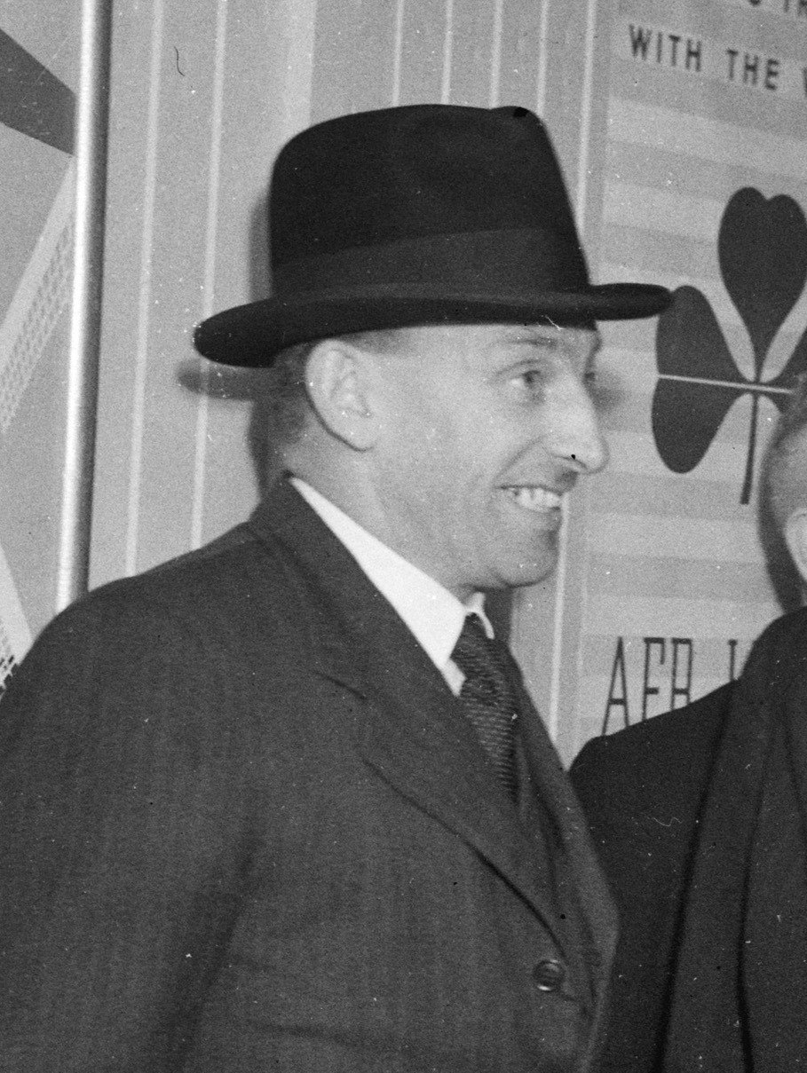 Irish Minister for Economic Affairs Seán Lemass at Schiphol Airport